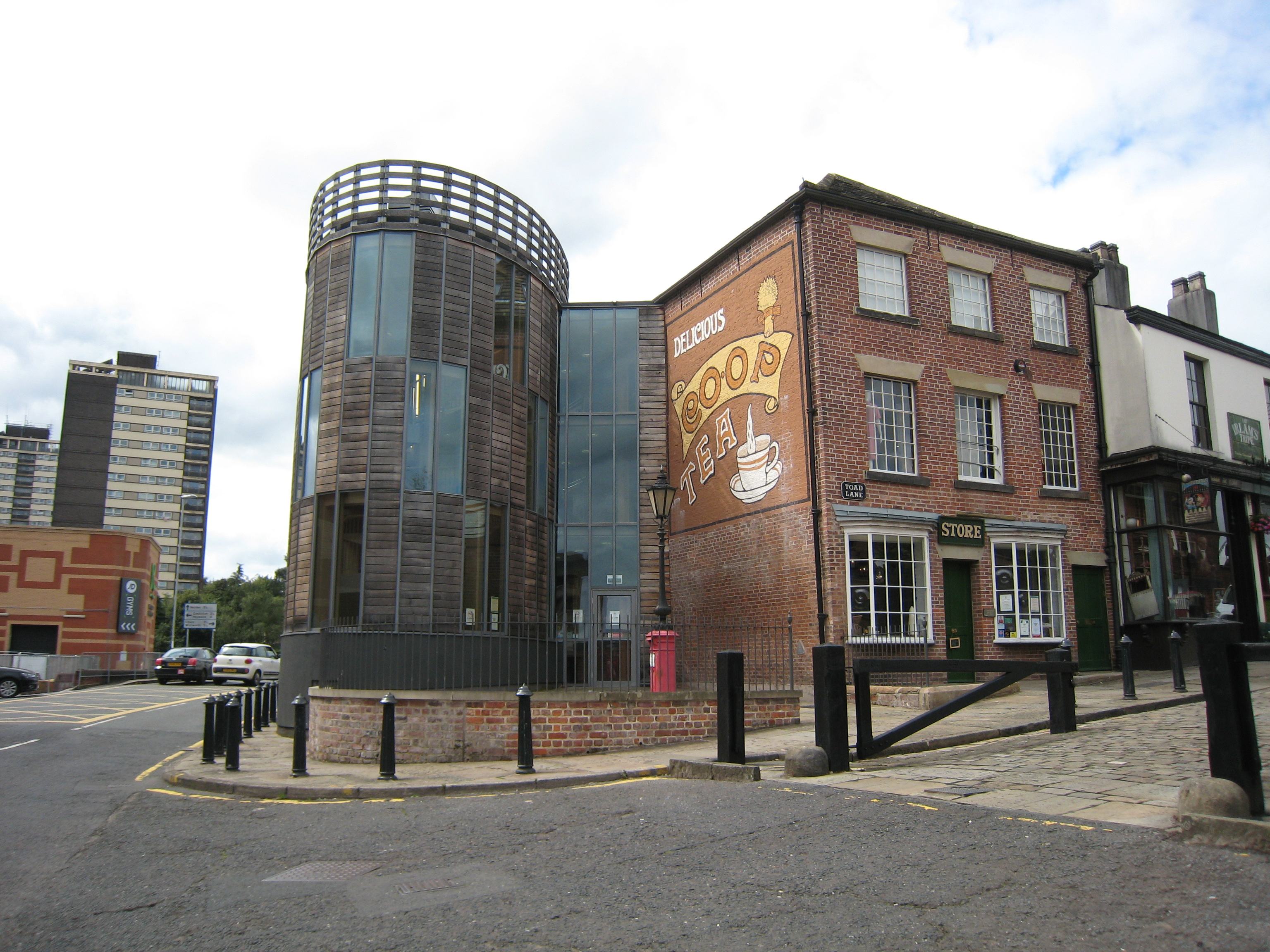 Rochdale Pioneers Museum, 31 Toad Lane, Rochdale. Exterior view, showing the original brick building and the 2012 extension